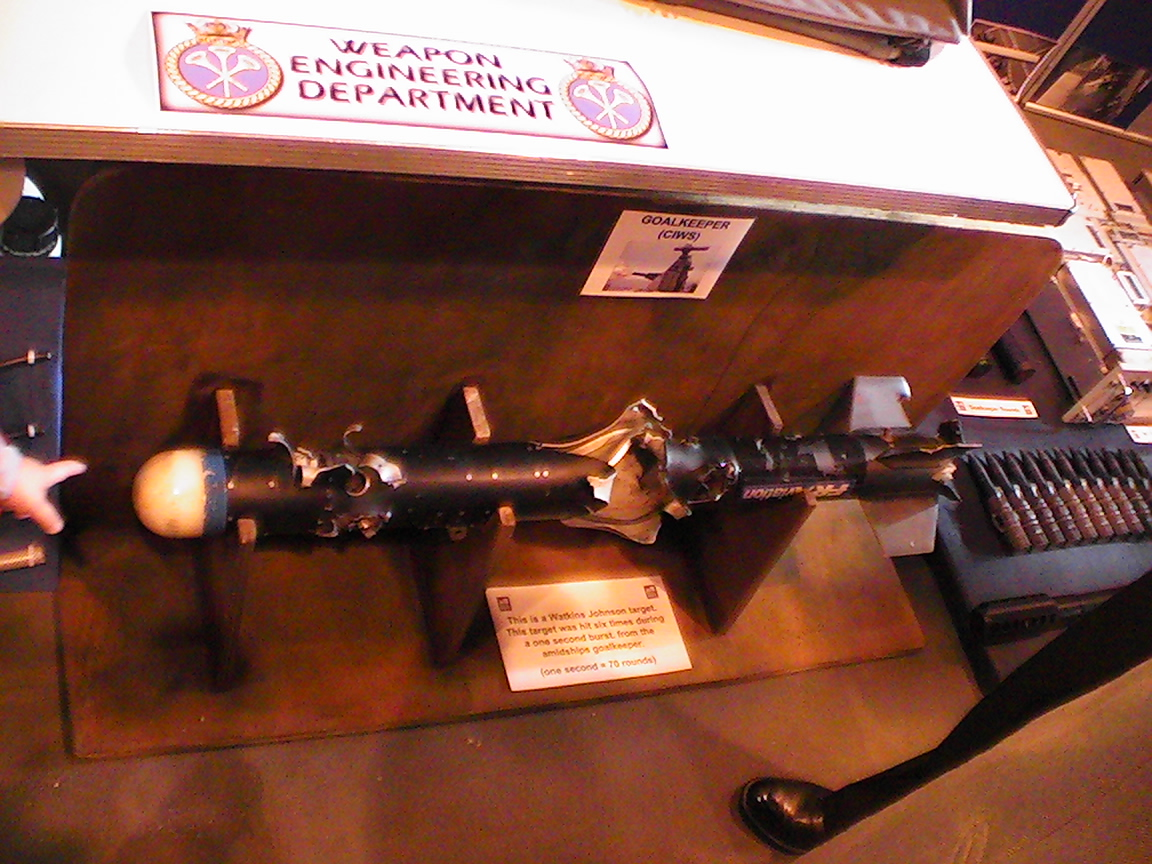 The destroyed target of a Goalkeeper Close In Weapons System of the Royal Navy of the United Kingdom displayed on HMS Illustrious, docked in Malta harbour. The text reads: 'This is a Watkins Johnson target. This target was hit six times during a one second burst from the amidships goalkeeper. ( one second = 70 rounds)'